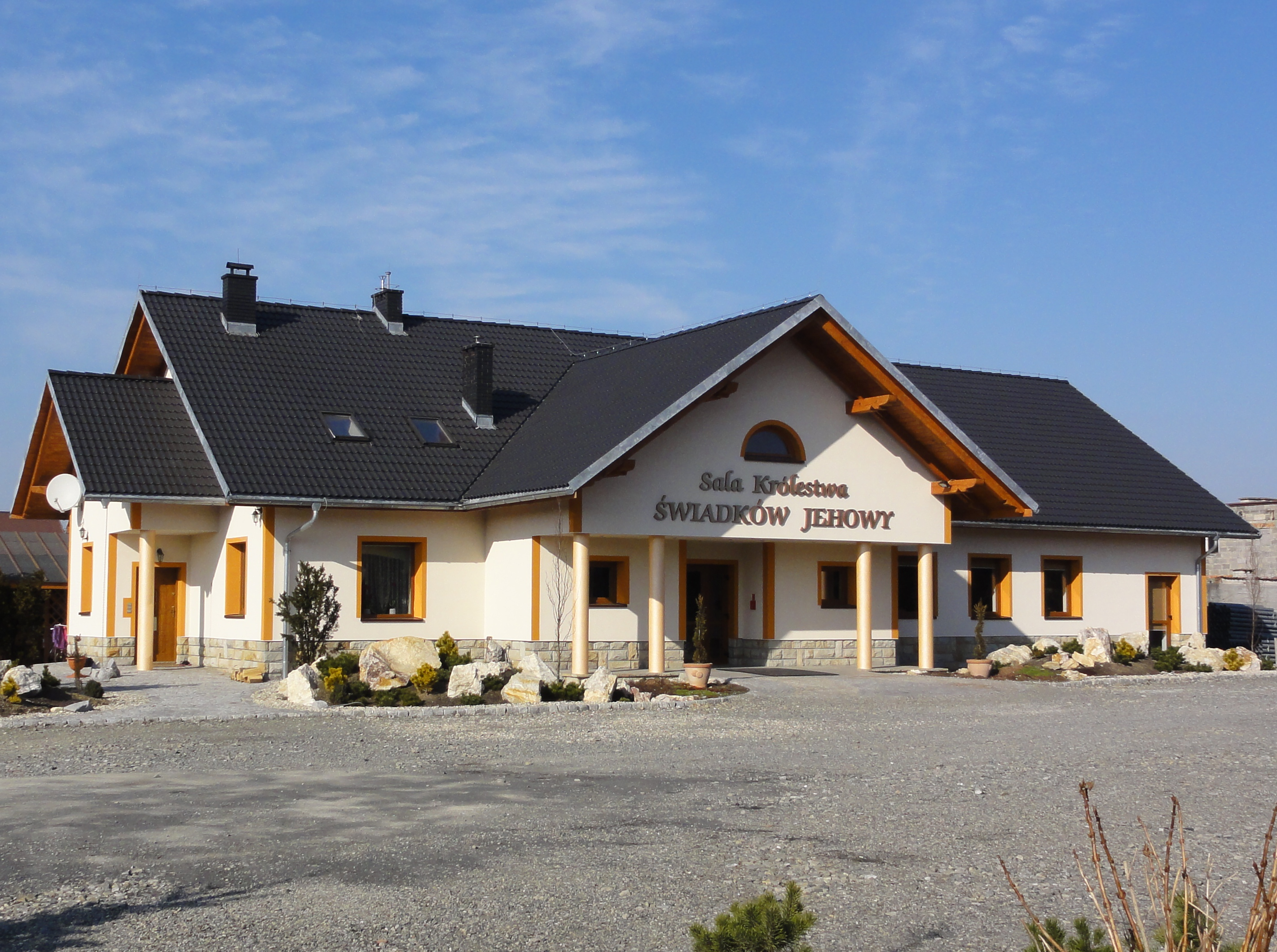 Kingdom Hall in Harbutowice